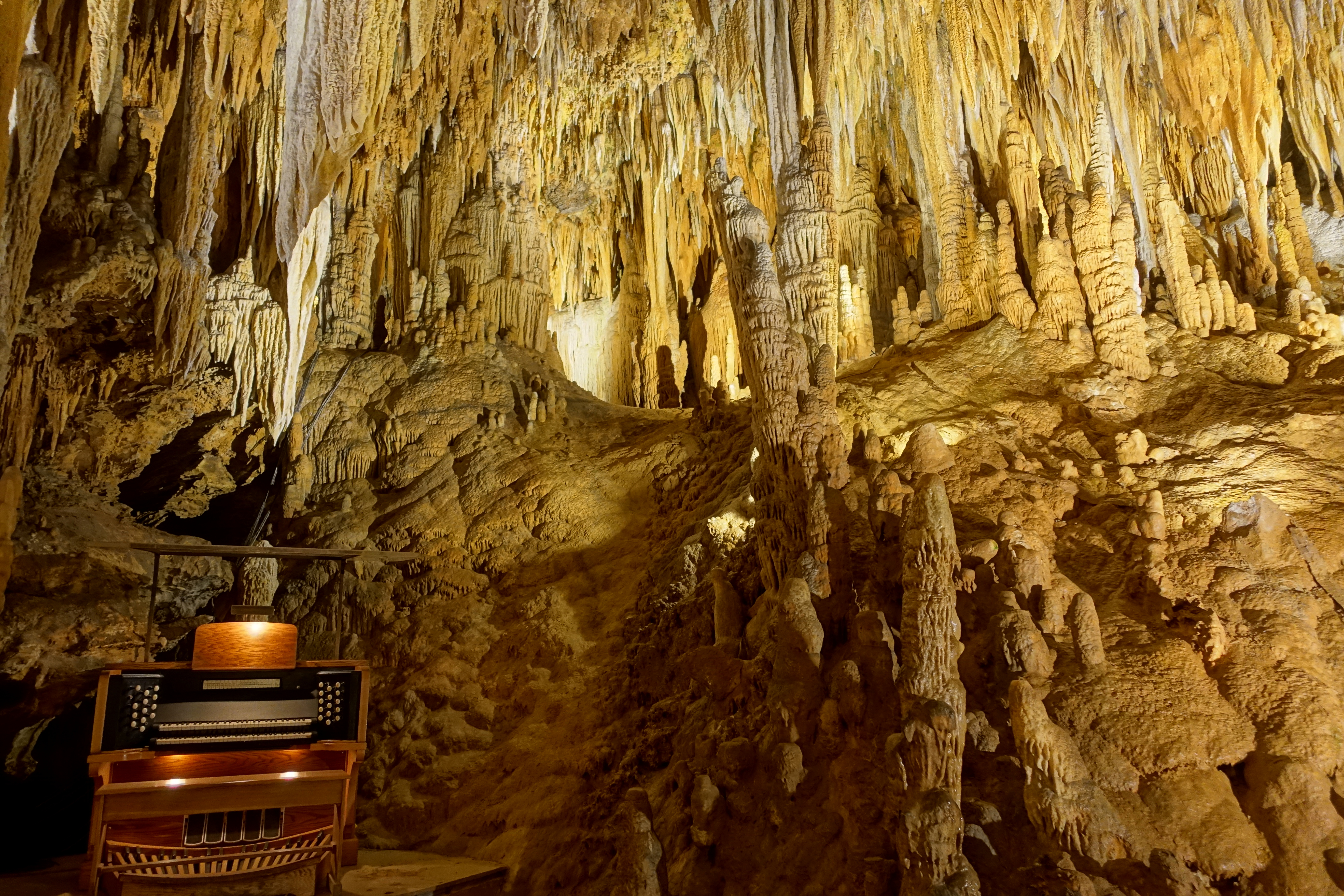 Luray Caverns - Luray, Virginia, USA.